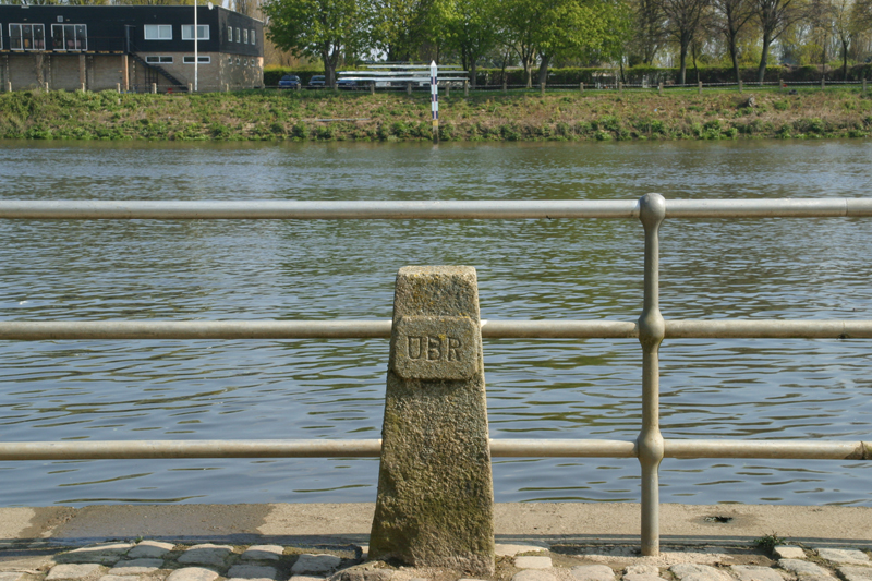 Image shows The Boat Race finish, with the University Boat Race stone in the foreground and the finishing post in the background. For an image of an actual race finishing, see File:Boat Race Finish 2008 - Oxford winners.jpg. For an image of the course, see File:University Boat Race Thames map.svg.